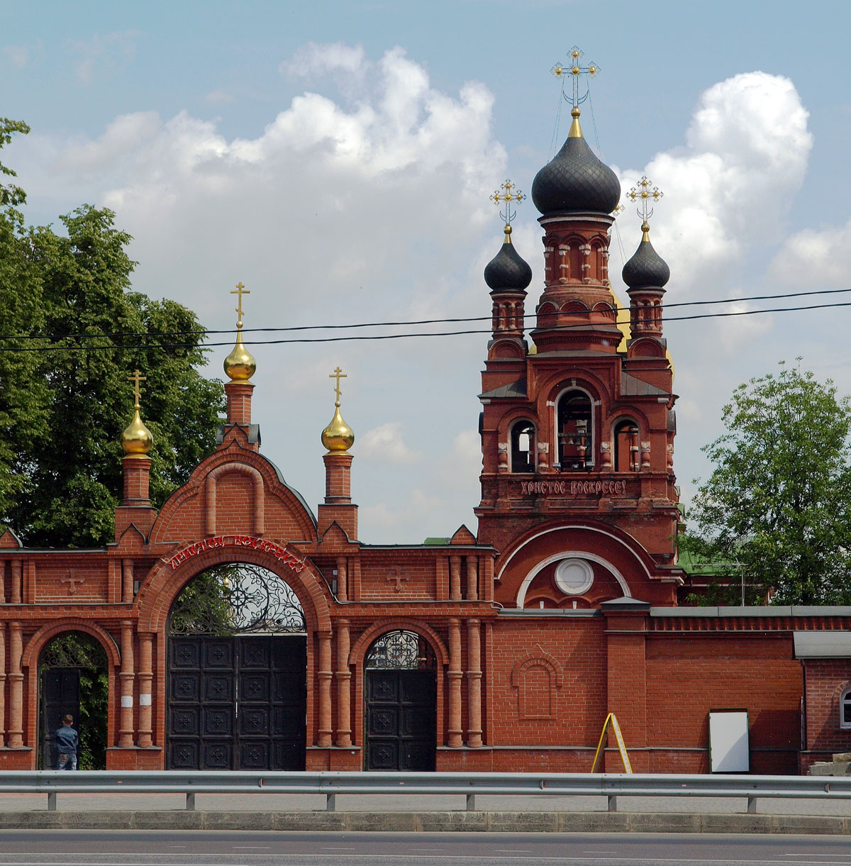 Gates of Novo-Alekseevsky convent in Moscow.